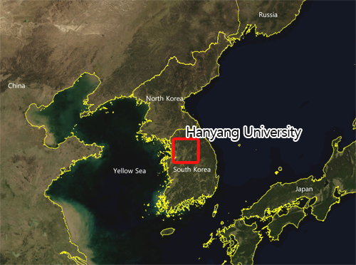 Location of Hanyang University